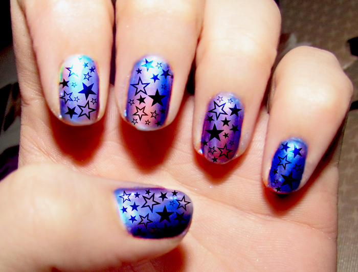 Purple Hologram Star Nail Art